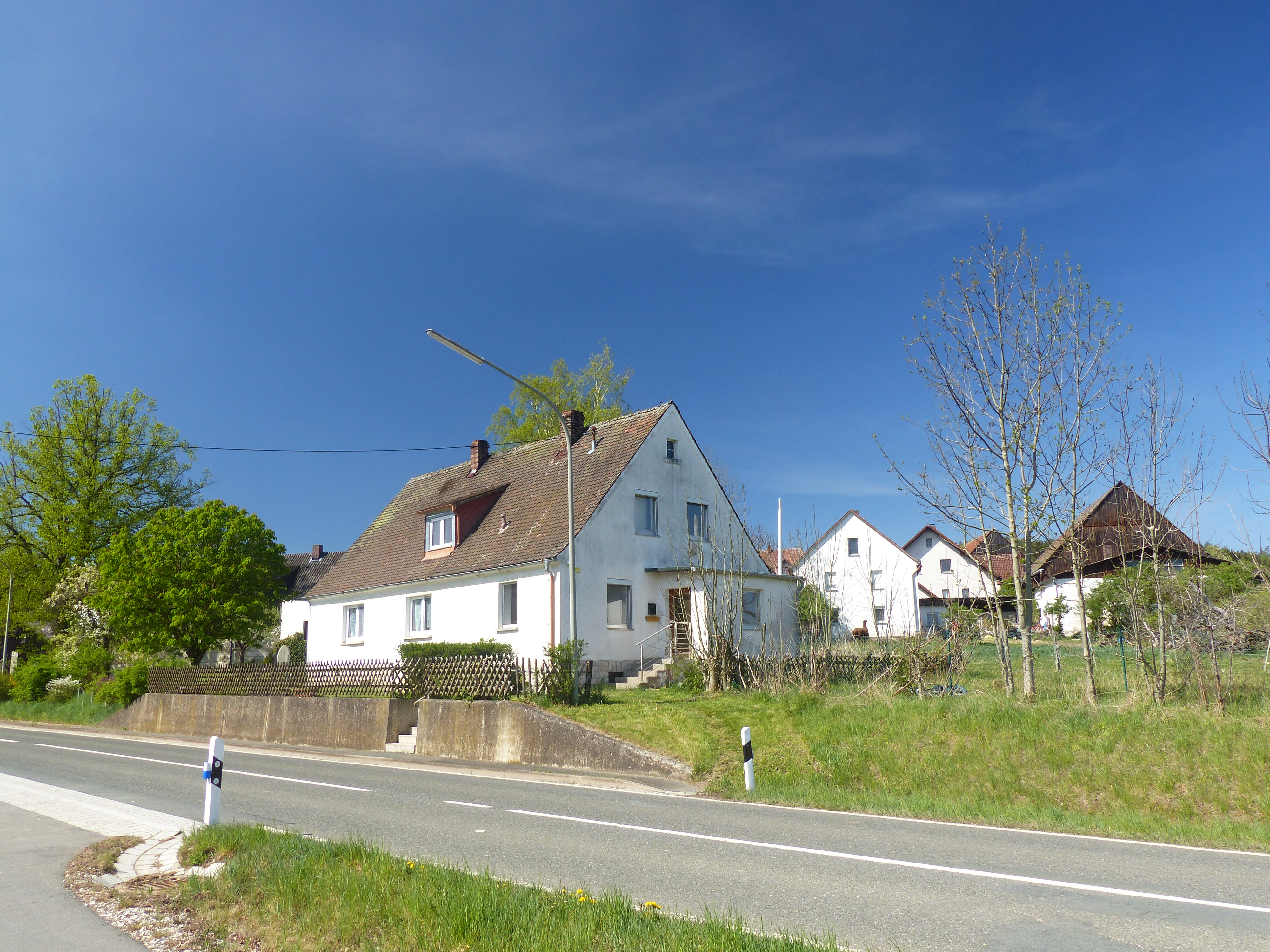 The village Bärnreuth, a district of the municiplality of Hummeltal.